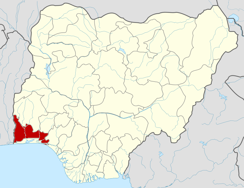 Map locator of Nigeria.